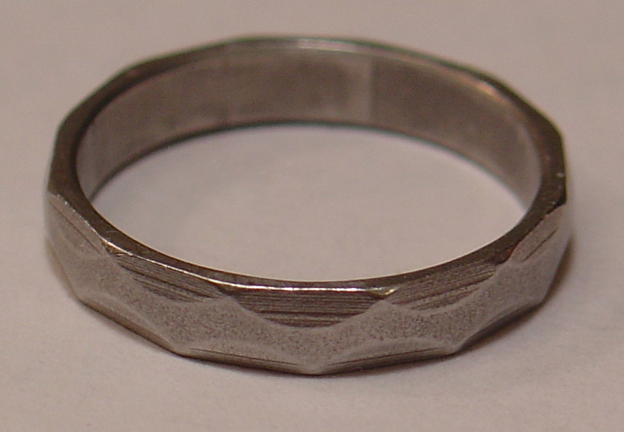 A Canadian Engineer's Iron Ring, Stainless Steel Version. This is a picture of the author's personal iron ring, received at the University of Waterloo, Camp 15, on February 17, 2004